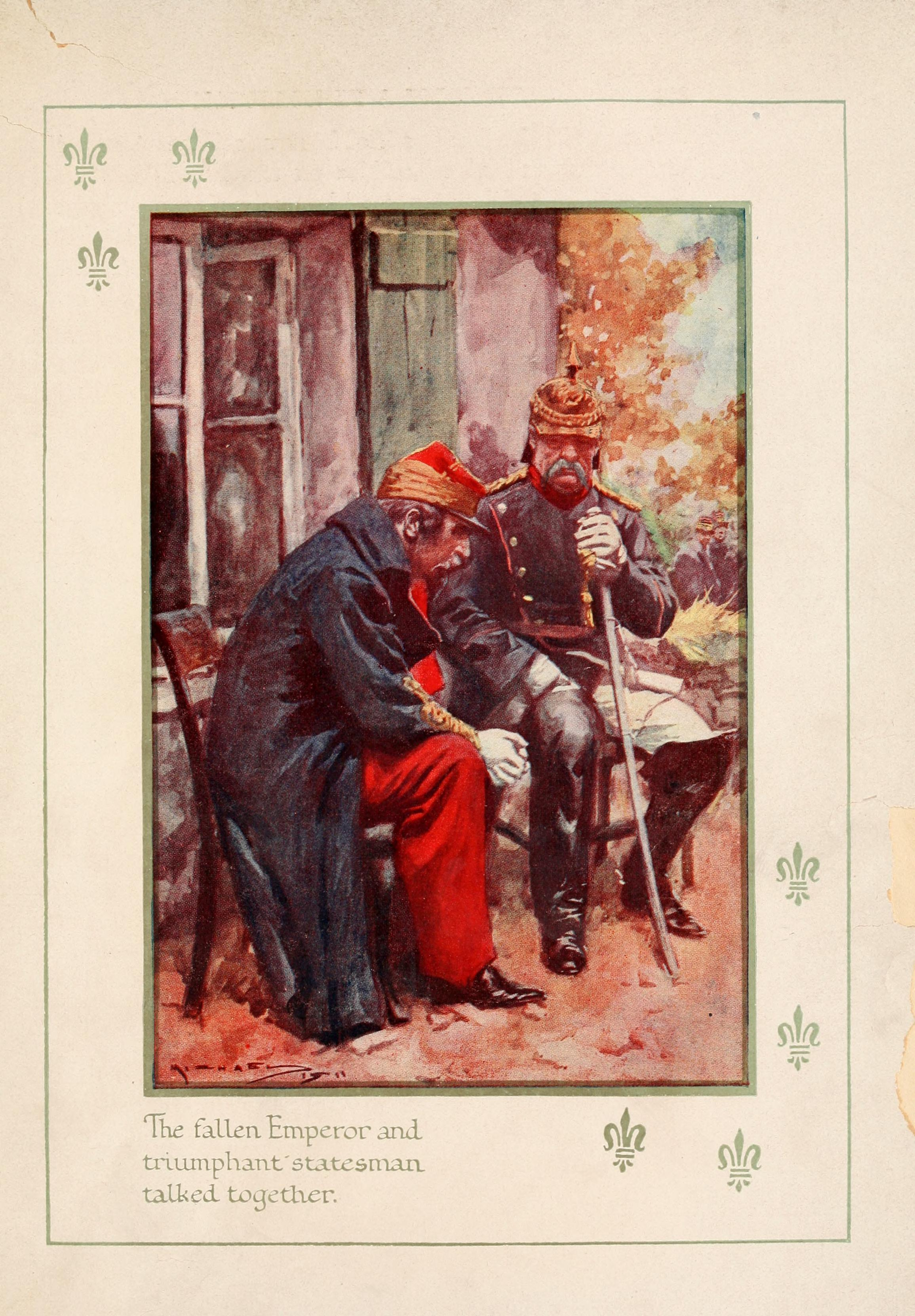 Published [c1912] Topics France -- History Publisher New York : Hodder & Stoughton, George H. Doran company Pages 622 Possible copyright status NOT_IN_COPYRIGHT Language English Call number 564148 Digitizing sponsor MSN Book contributor New York Public Library Collection newyorkpubliclibrary; americana Full catalog record MARCXML [Open Library icon]This book has an editable web page on Open Library.